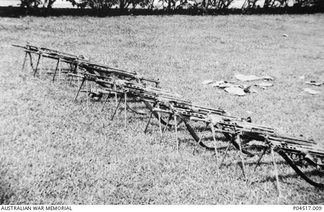 A row of light machine guns, probably of Czech manufacture, taken from Indonesian infiltrators following their capture by members of 3RAR during Operation 'Flower' on 29 October 1964. All 52 infiltrators, along with their captured arms and equipment, were conveyed to the police compound at Sungai Rambai, where they were held under guard by Malaysian Security Forces.